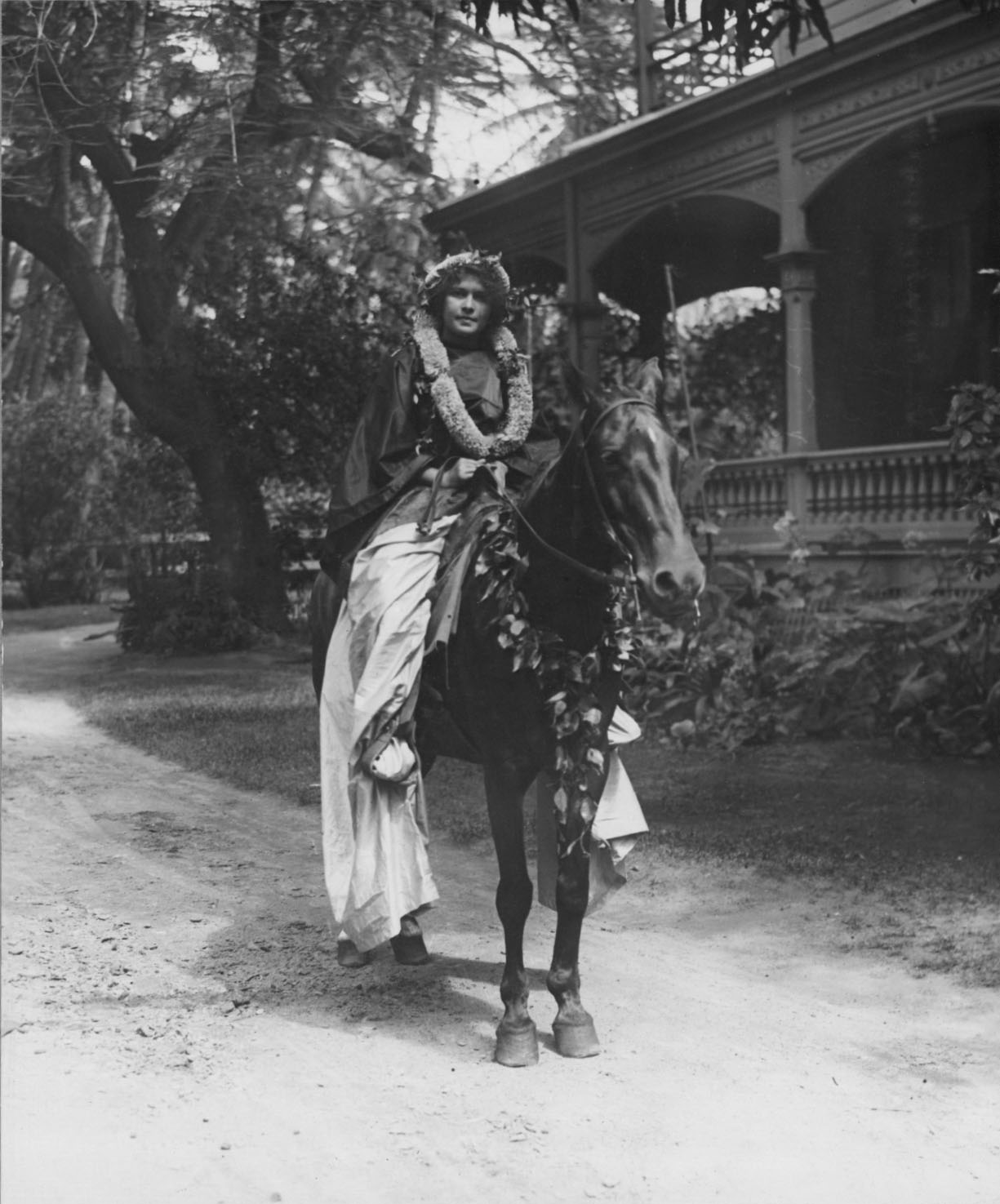 Adele Kauilani Robinson Lemke (1895–1954) as a pāʻū riders. She was the wife of Herman Lemke.